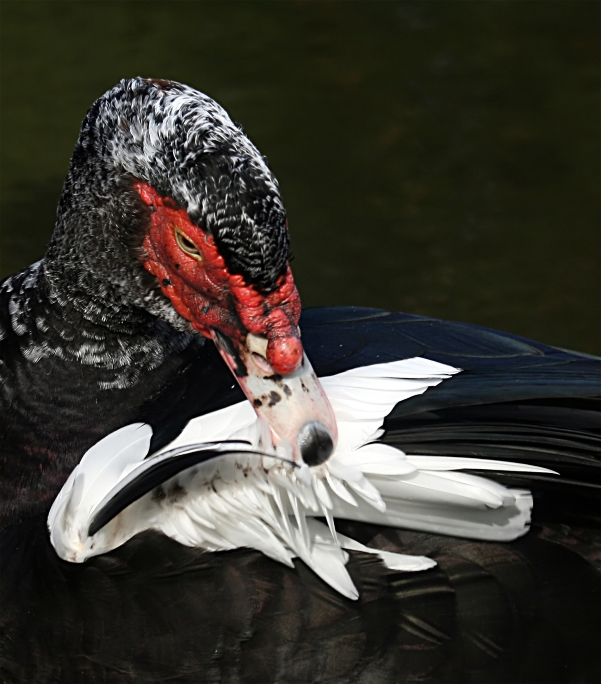 Male Muscovy Duck cleaning his feathers